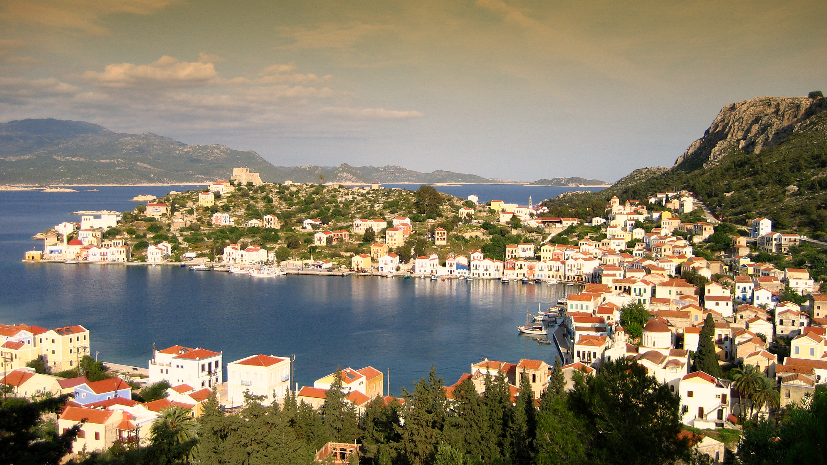 Castelorizo Island, Dodecanese, Greece